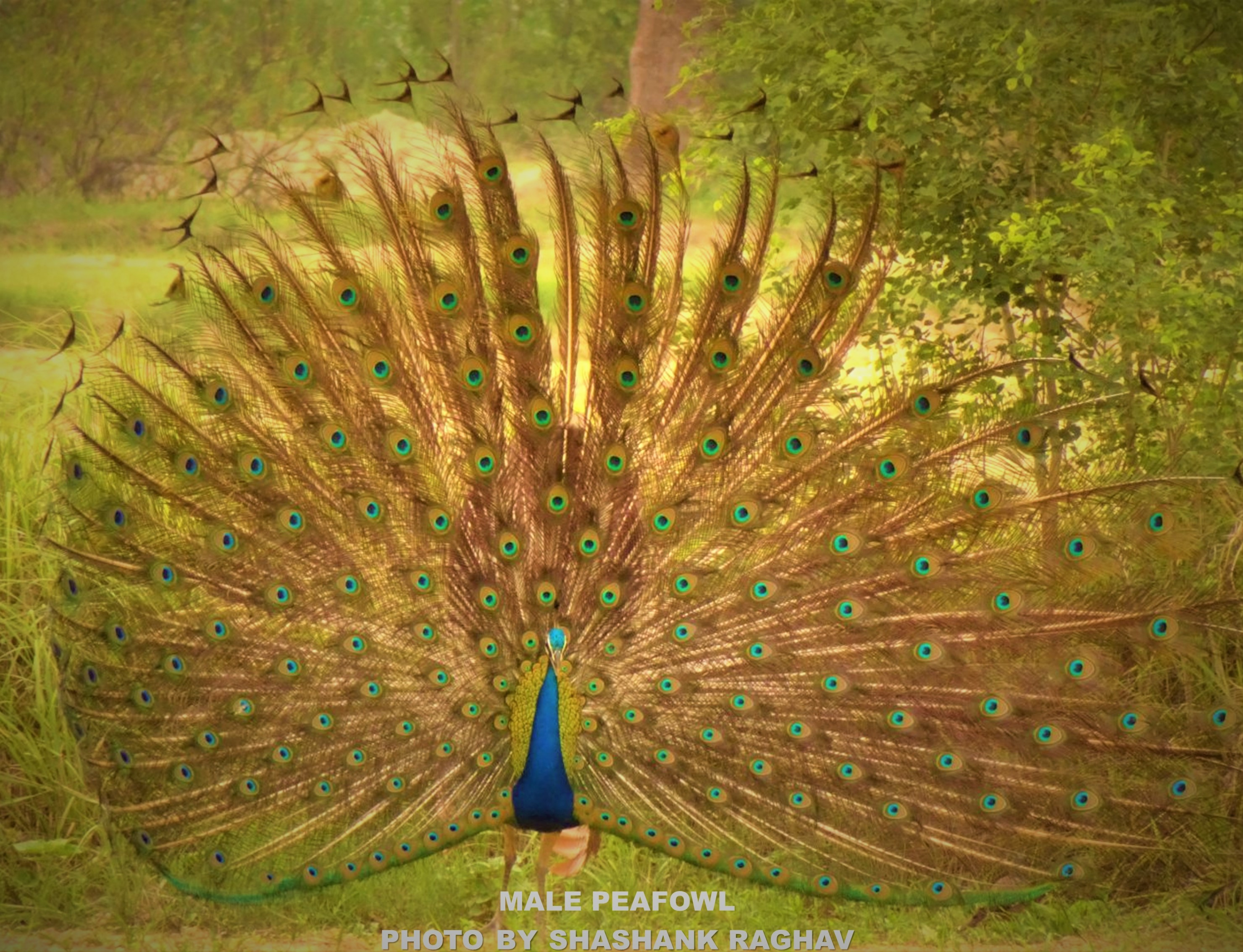 MALE PEAFOWL